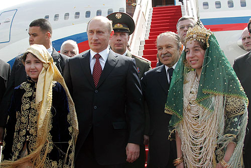 HOUARI BOUMEDIENE INTERNATIONAL AIRPORT, ALGIERS. Official welcome ceremony.